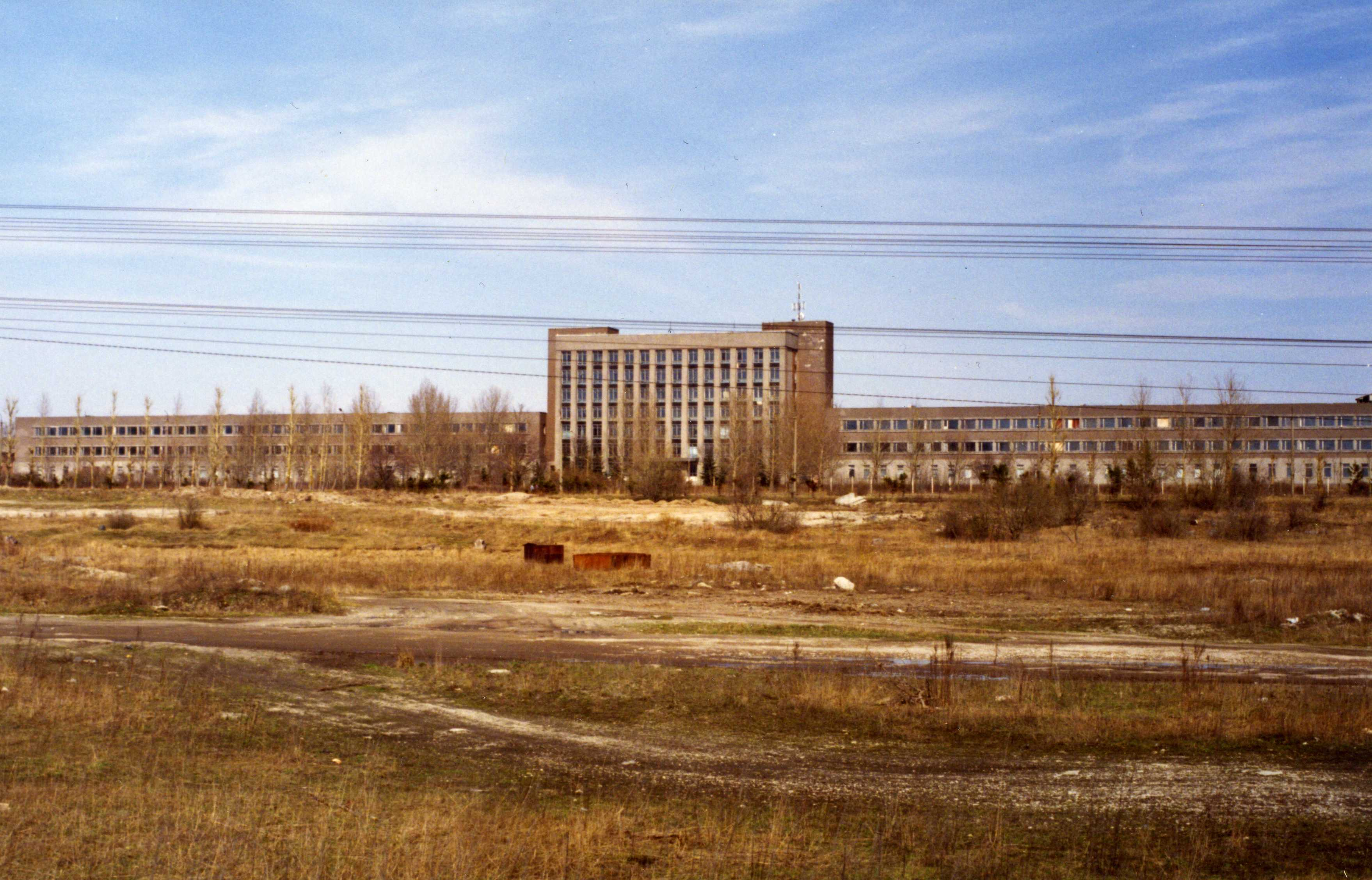 Soviet Naval base headquarters in Paldiski Estonia.